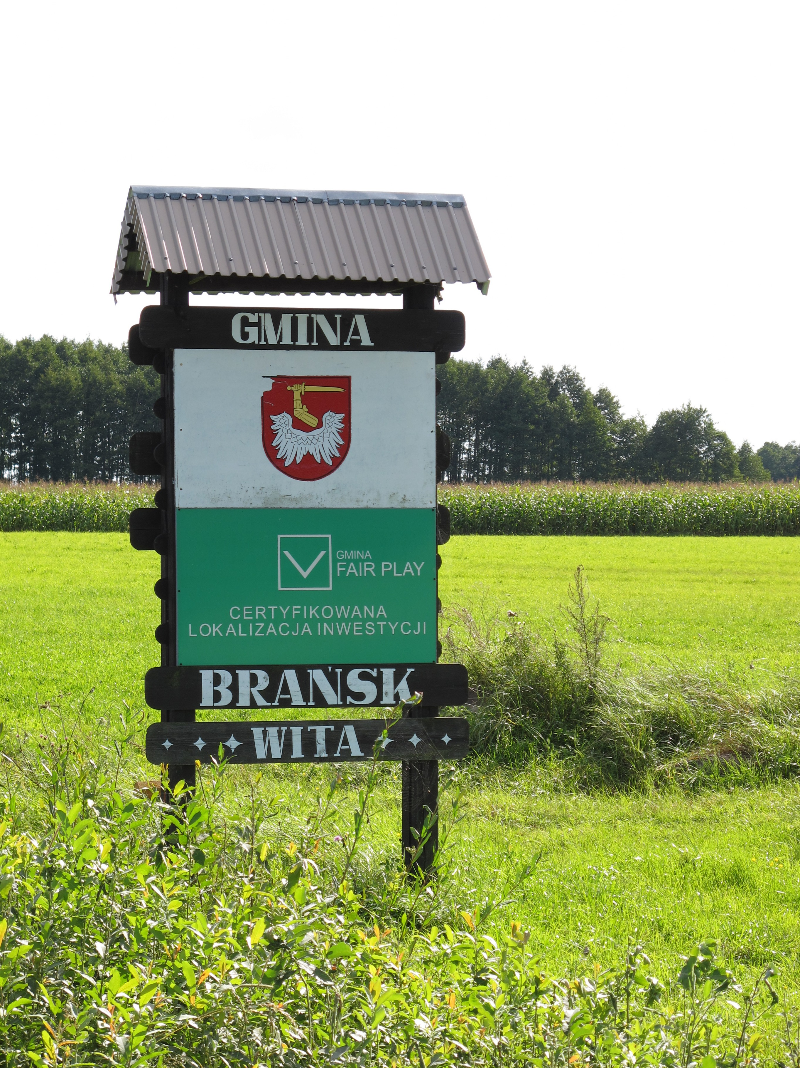 Gmina Brańsk welcome sign by VR681 between villages Moskwin and Olszewo, podlaskie, Poland